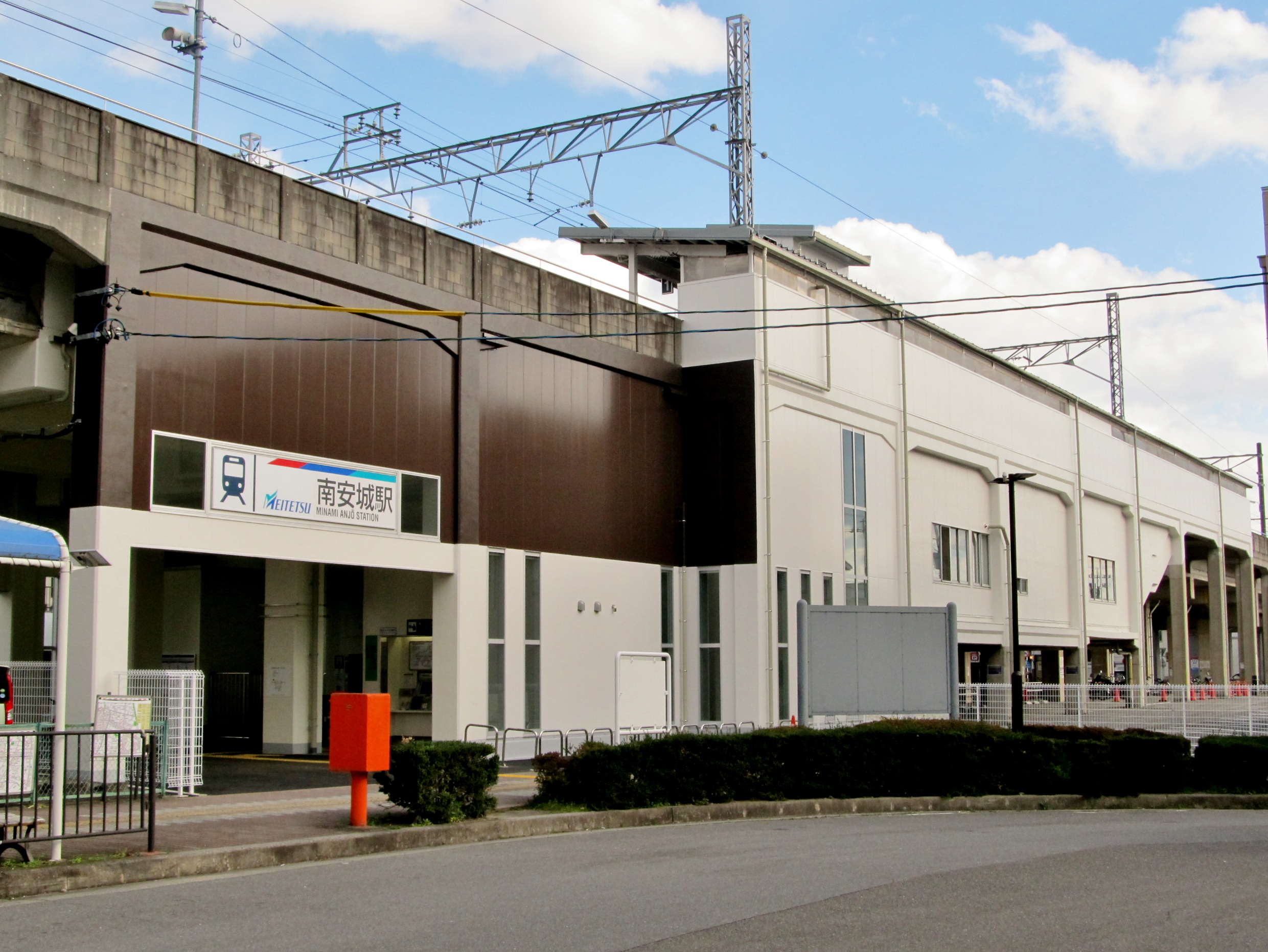 Nagoya Railroad Nishio Line Minami Anjō Station